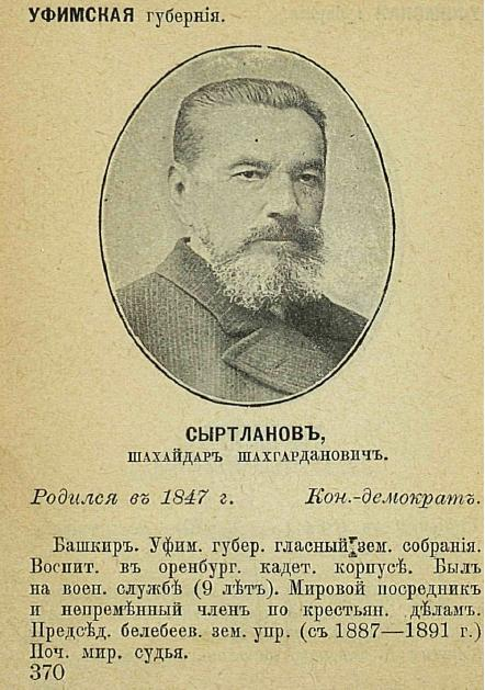 Bashkir deputy Syrtlanov from Ufa province